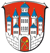 Coat of Arms of Bad Sooden-Allendorf